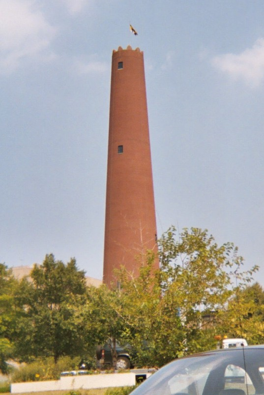 Phoenix Shot Tower in Baltimore, Maryland.